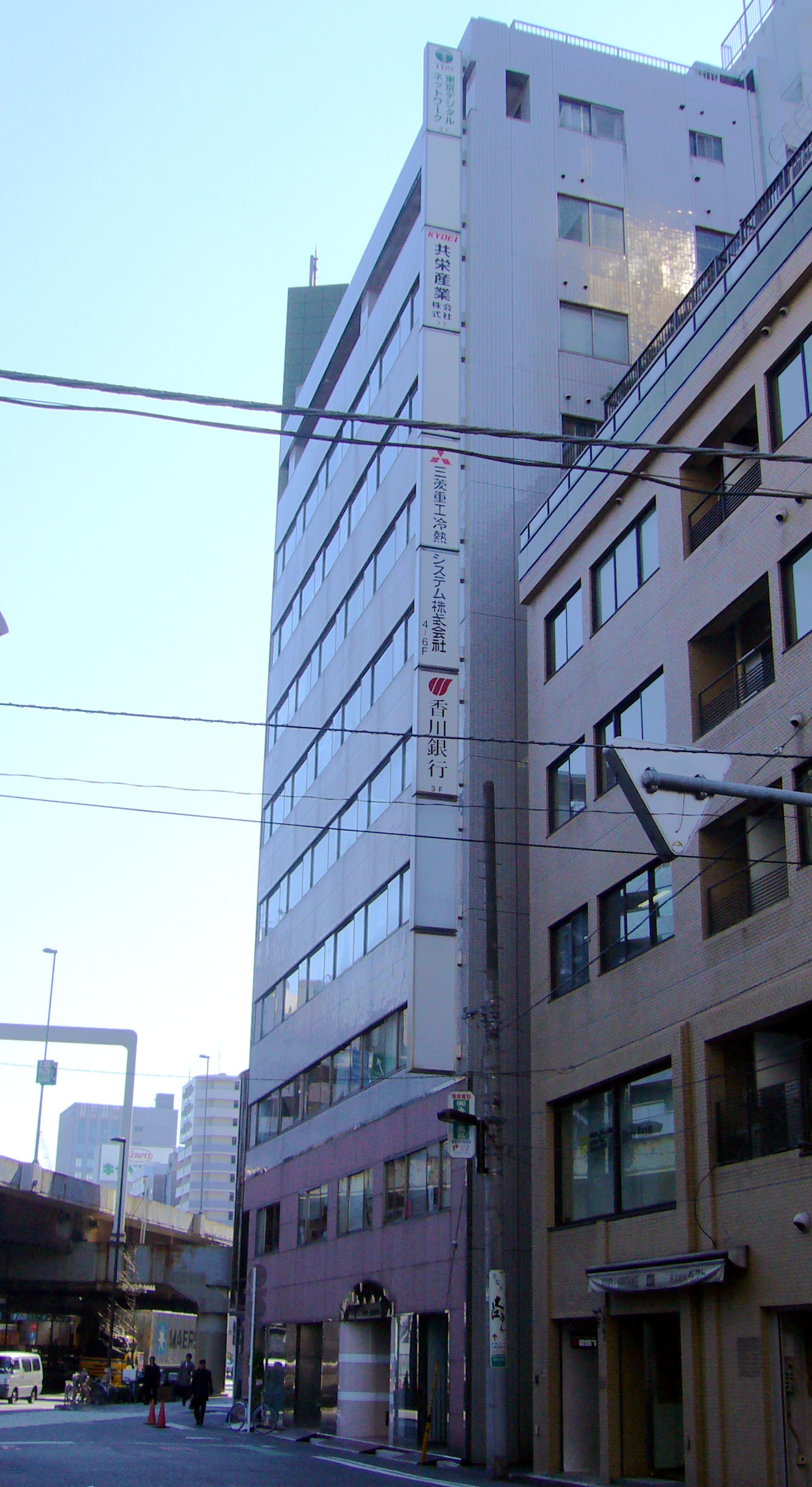 Itohpia Kanda Kyodo Building (Office building in Tokyo, Japan)